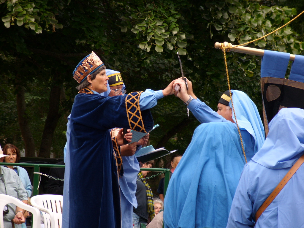 penzance 2007